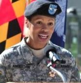 Major General Anderson speaks during her promotion ceremony, which was also her farewell from the Army Reserve's Human Resources Command. Crop of original.